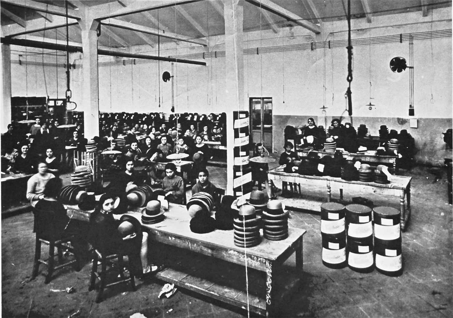 Production of hats in Montevarchi at "La Familiare" Factory